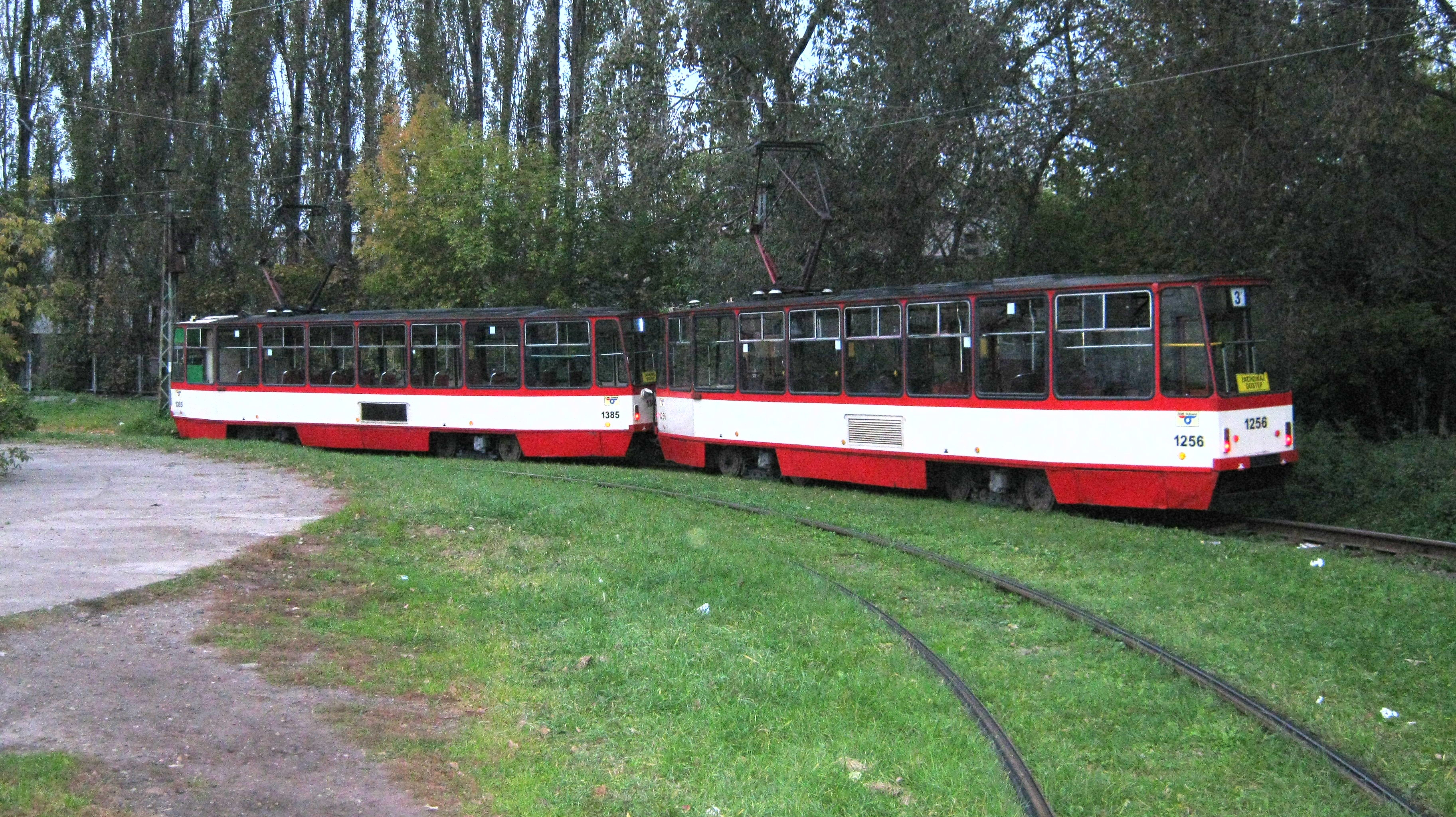 Tram track loop in Gdańsk Stogi (Tram "Konstal 105Na")